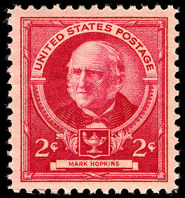 1940 United States Post Office Department postage stamp honoring Mark Hopkins